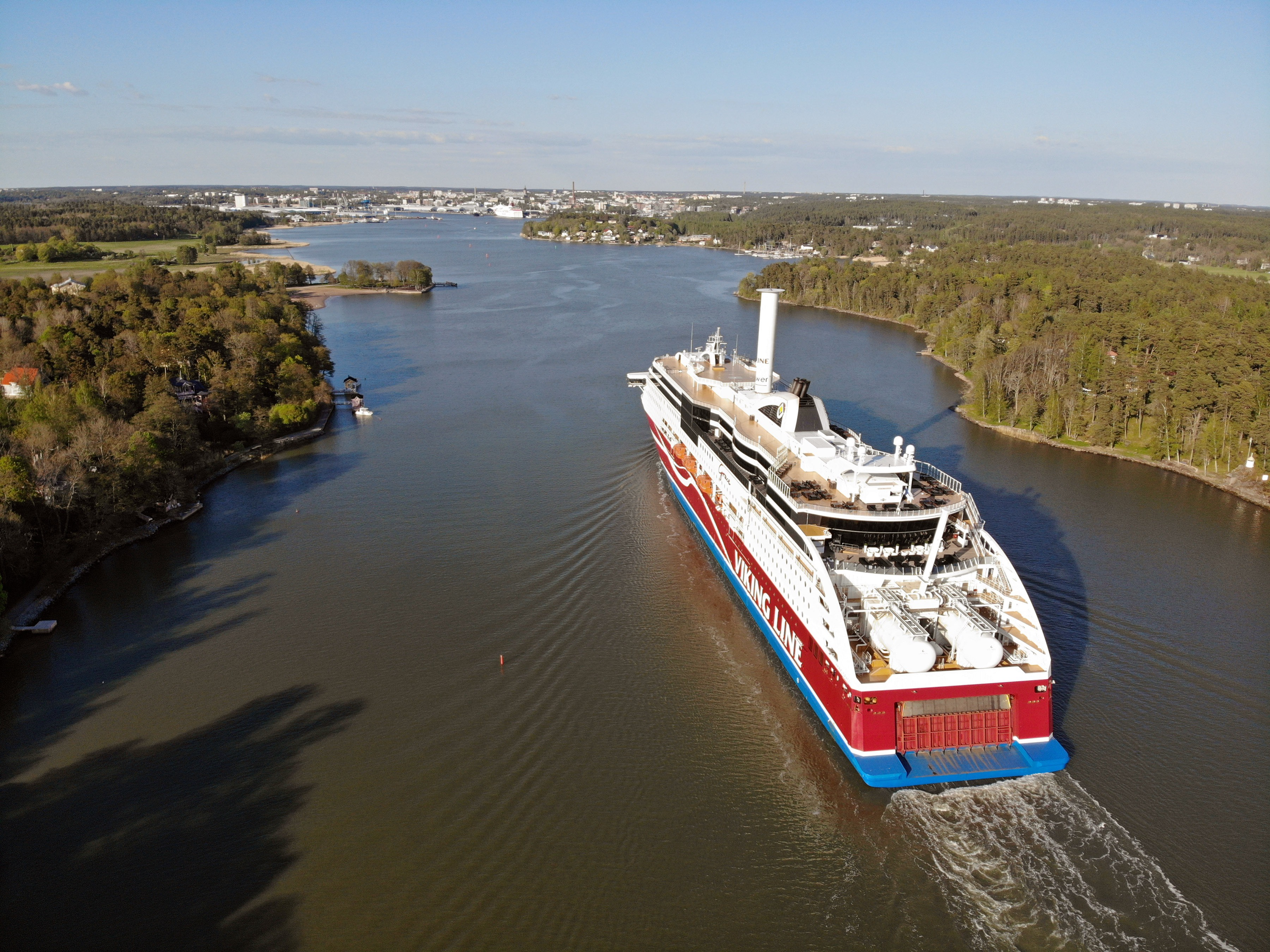 Viking Grace heading towards Port of Turku.